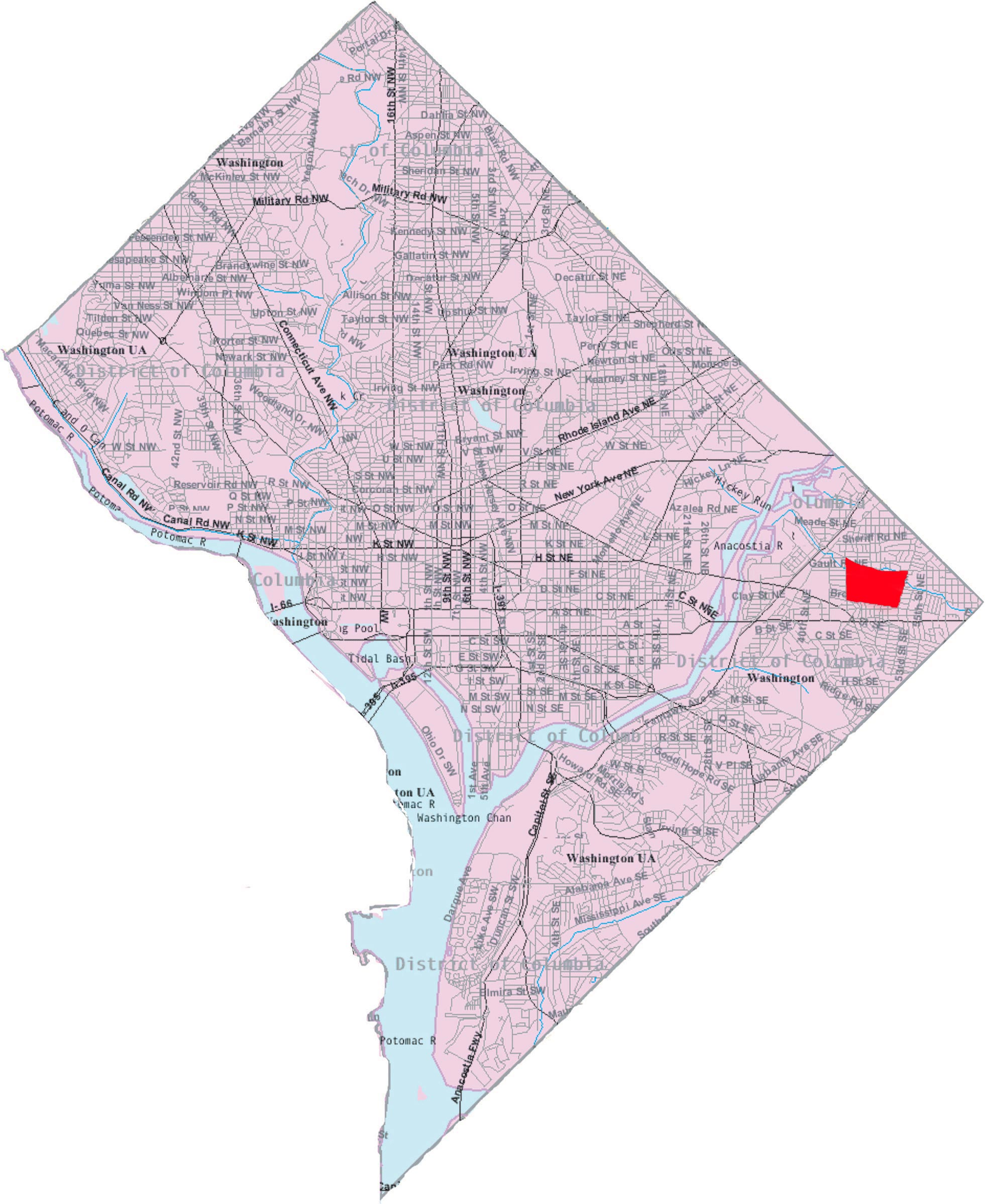 This image is a modified version of a self-generated reference map from the U.S. Census Bureau's American Factfinder at by Wikipedia user Msclguru.